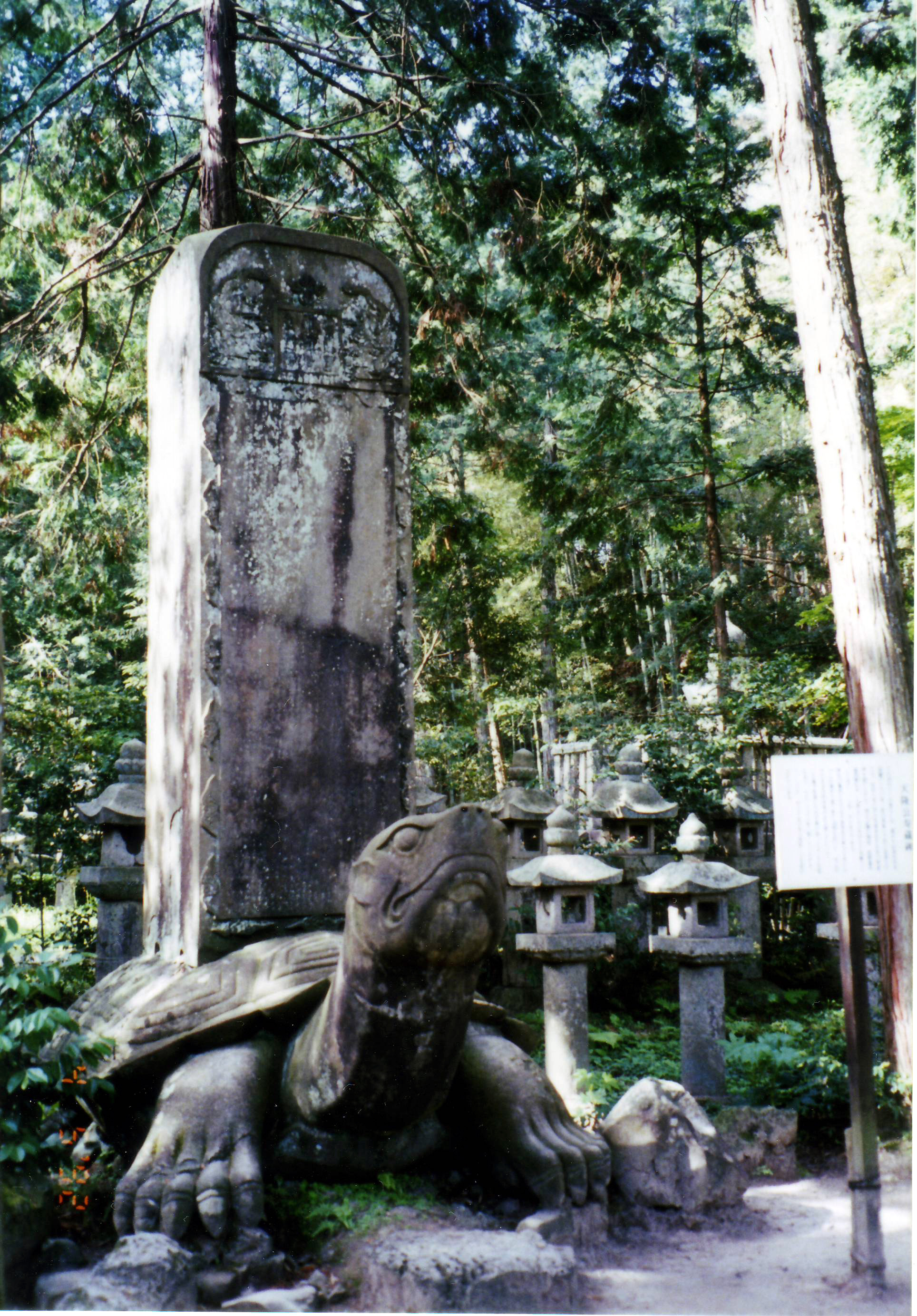 Gesshouji Juouhi monument of Matsudaira Munenobu